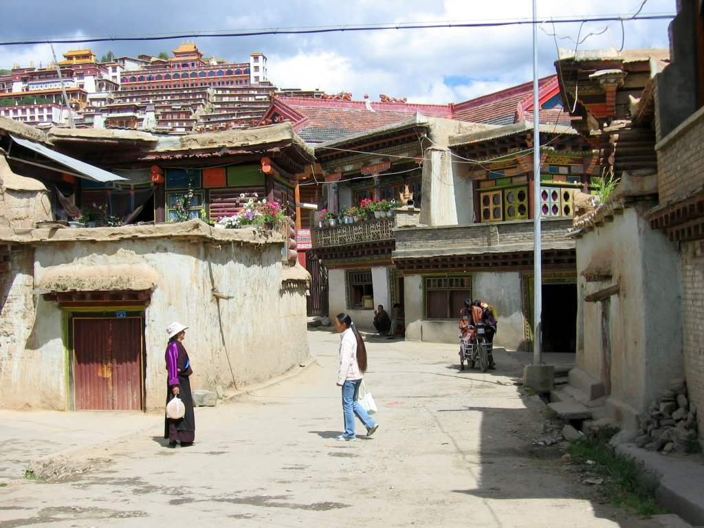 Ganzi (Garze) is a town in Garzê Tibetan Autonomous Prefecture in western Sichuan Province, China. It is an ethnic Tibetan township located in the historical Tibetan region of Kham.